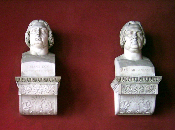 Busts of Johann Eck and Conrad_Peutinger at Ruhmeshalle ("Hall of fame"), München, Germany. Picture taken by myself: Dominik Hundhammer, München, 27 March 2006.